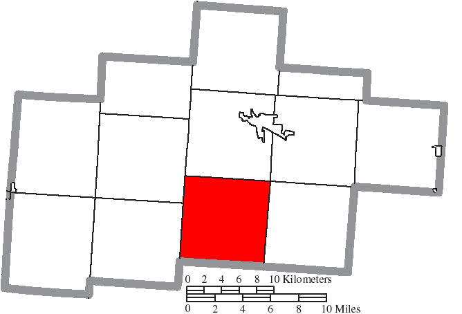 Map of the municipal and township boundaries of Hocking County, Ohio, United States, as of the 2000 census, with the location of Washington Township highlighted. Township borders are shown only in unincorporated areas in order to differentiate incorporated and unincorporated areas more clearly.